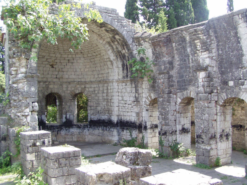 Gantiadi Temple — built in 543 is one of the oldest churches in Georgia.